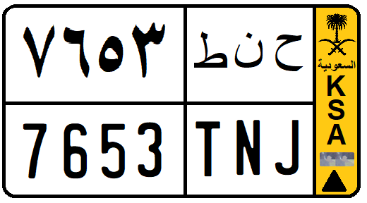 KSA - License Plate - Taxi